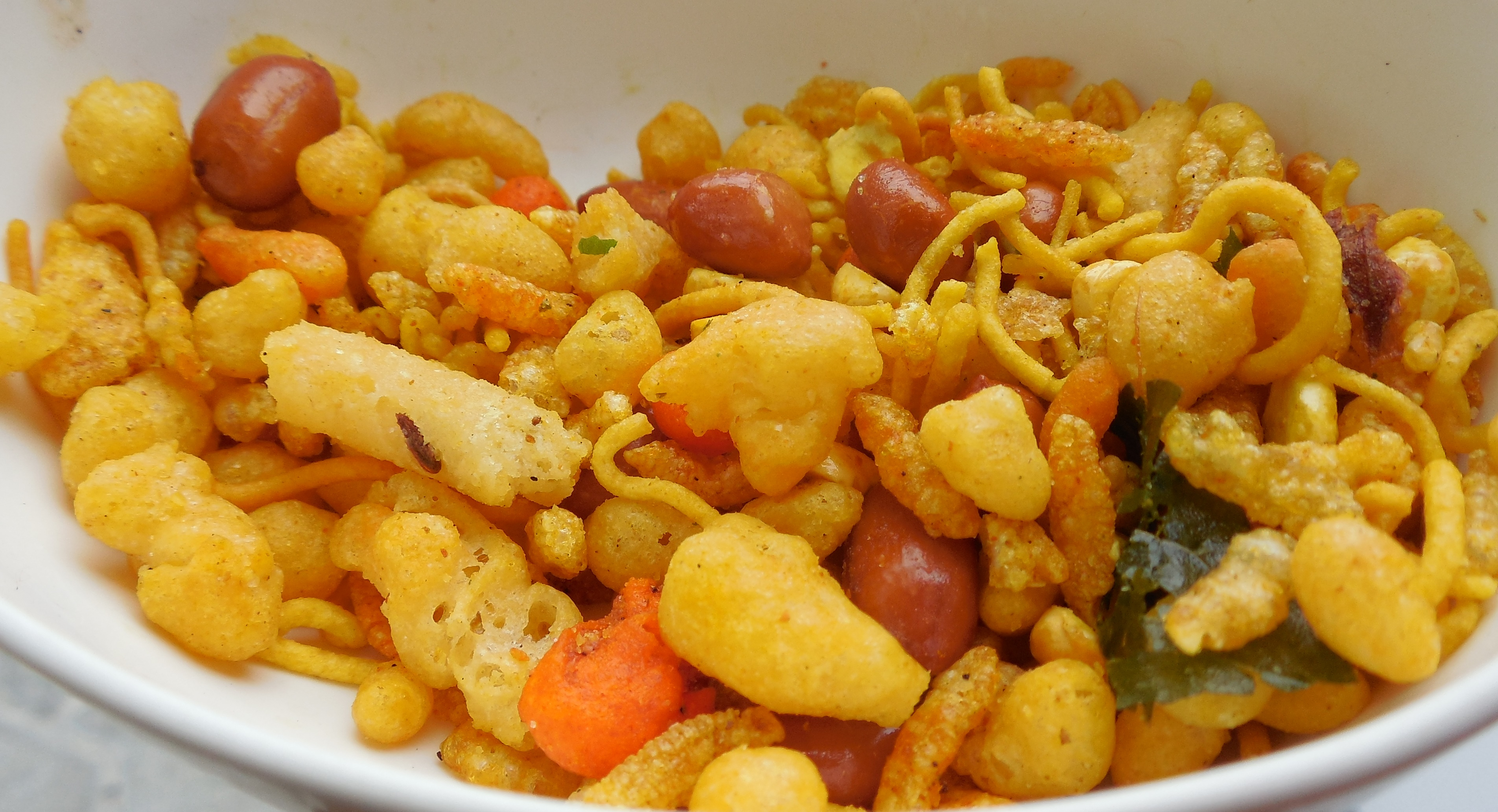 Mixture (the Indian snack) in Chennai.